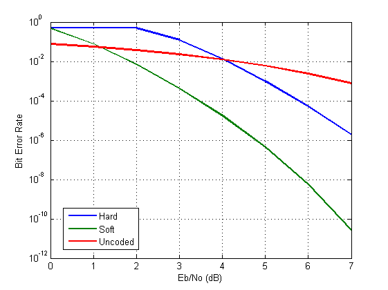 MATLAB script: clear all close all clc EbNo = 0:7; spect = distspec(poly2trellis(7,[171 133]),7) ber_h = bercoding(EbNo,'conv','hard',1/2,spect); ber_s = bercoding(EbNo,'conv','soft',1/2,spect); ber_u = berawgn(EbNo,'psk',4,'nondiff'); figure(1) semilogy(EbNo, ber_h, EbNo, ber_s,... EbNo, ber_u, 'LineWidth', 1.5) hold on legend('Hard','Soft','Uncoded','location','best') grid on xlabel('Eb/No (dB)') ylabel('Bit Error Rate')